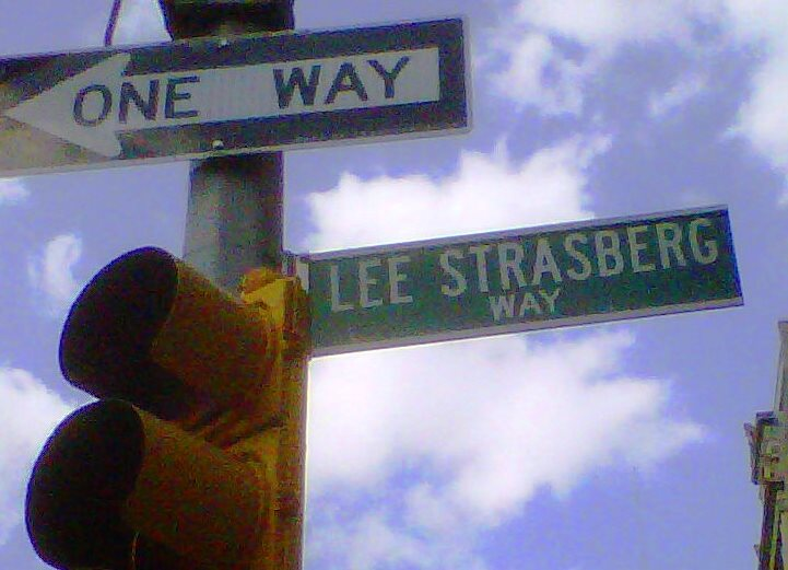 East 15th Street in Manhattan, New York between Union Square East and Irving Place, where the Lee Strasberg Institute is located, has been designated "Lee Straberg Way" by the city.